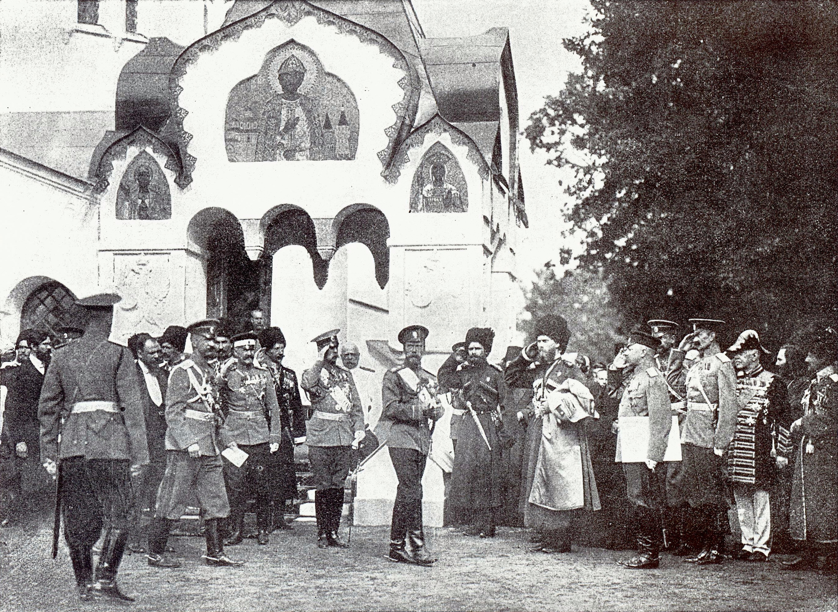 Tsarskoye Selo (Russia)